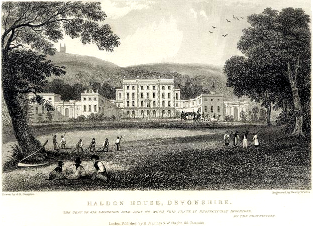 "Haldon House, Devonshire. The seat of Sir Lawrence Palk, Bart., to whom this plate is respectfully inscribed by the proprietors. Drawn by C.B. Campion; engraved by Henry "Wills" (?). London, published by R. Jennings & W. Chaplin, 62 Cheapside". (Published in "History of Devonshire...1830"). Demolished 1920s. The "Lawrence Tower" or "Haldon Belvedere" is visible on the hilltop behind left